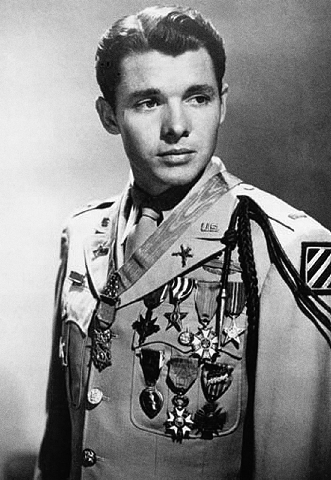 Audie Murphy (signature removed) U. S. Army publicity photo taken after Murphy's 1948 trip to Paris to receive the Chevalier légion d'honneur and Croix de guerre with palm